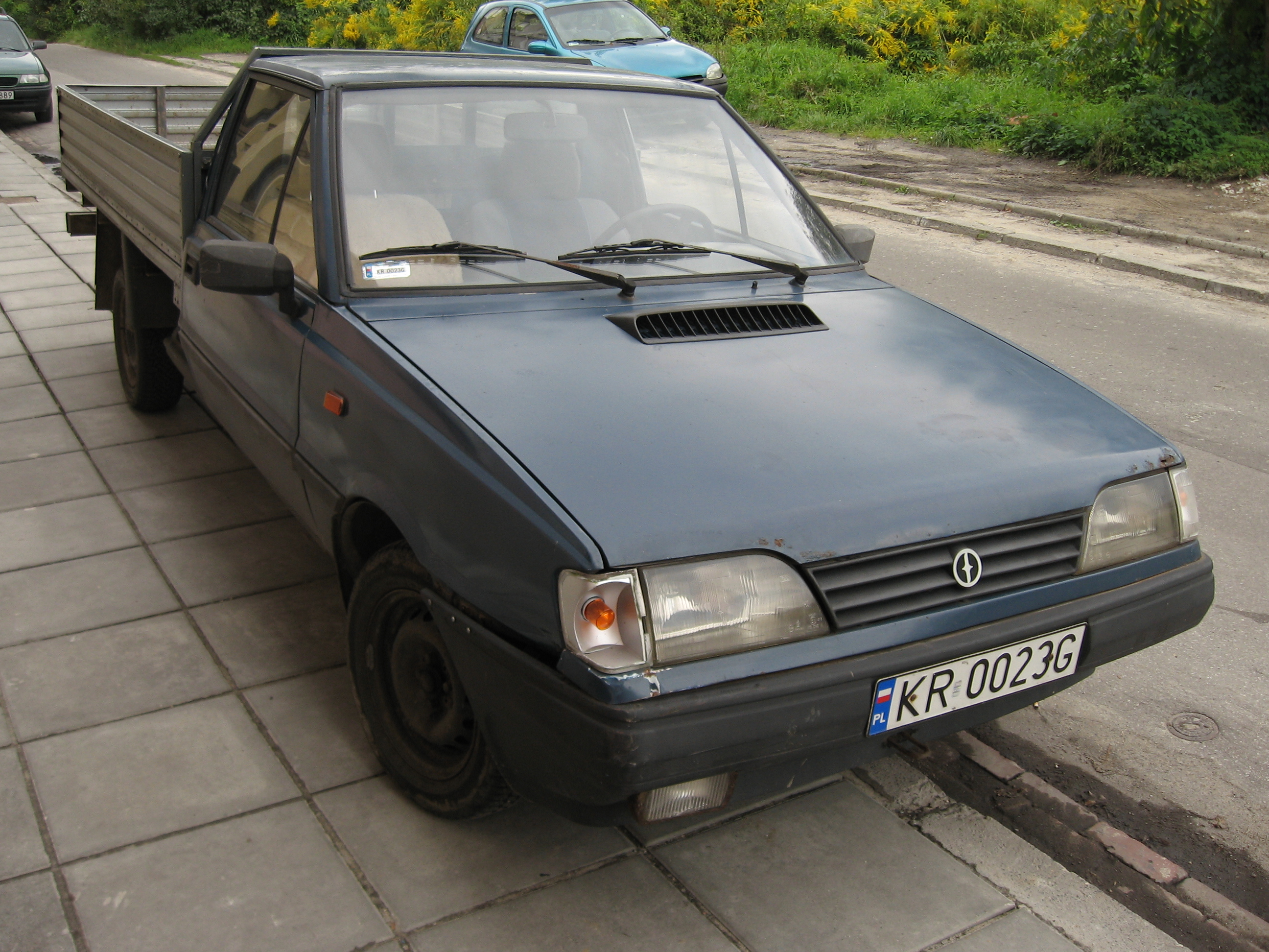 FSO Polonez Truck LB in Kraków, Poland.